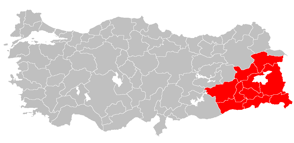 Provinces of Turkey with Kurdish majorities highlighted